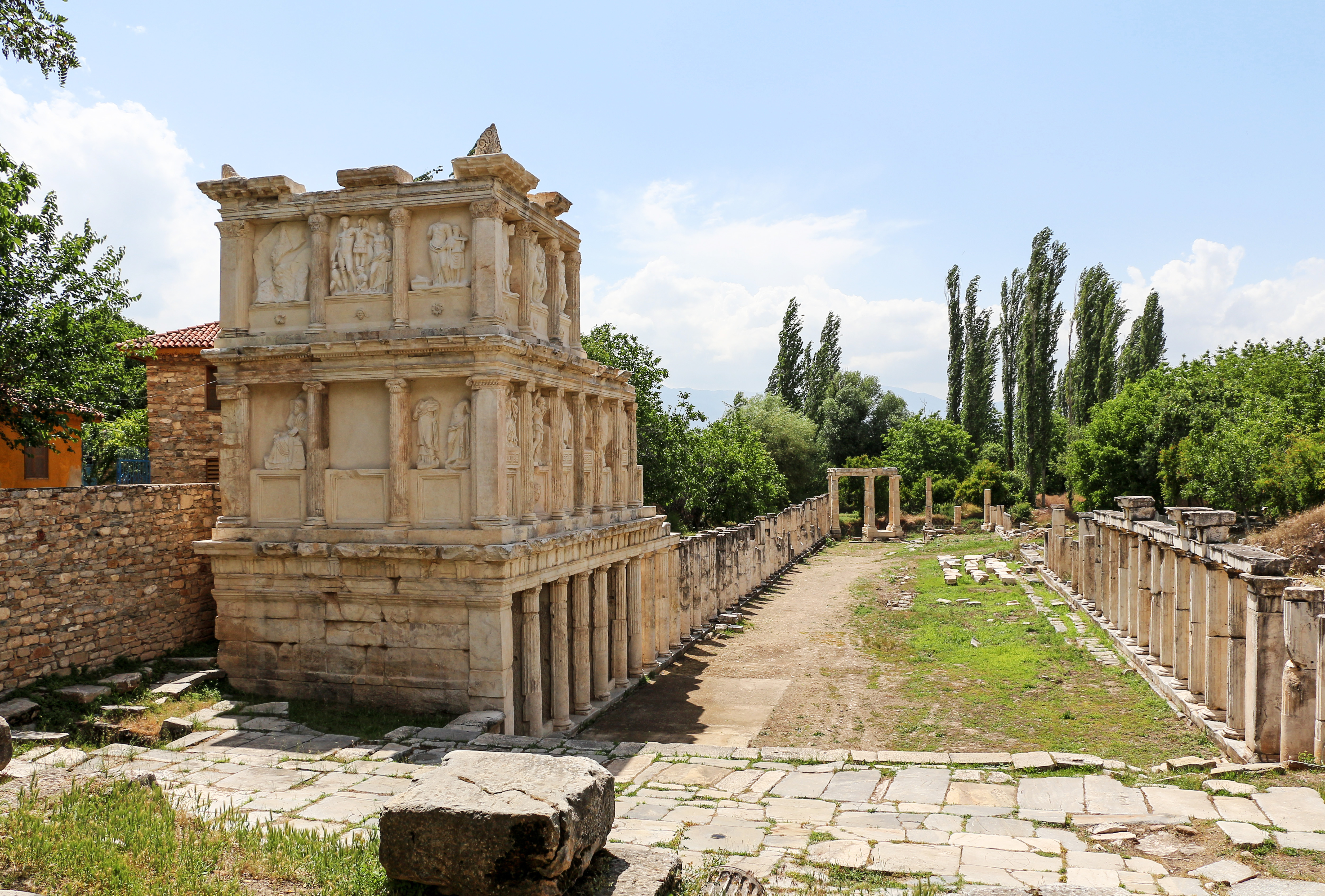 The Sebasteion in Aphrodisias, Turkey